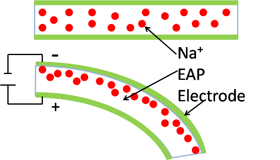 Schematic of an ionic polymer-metal composite (IPMC).